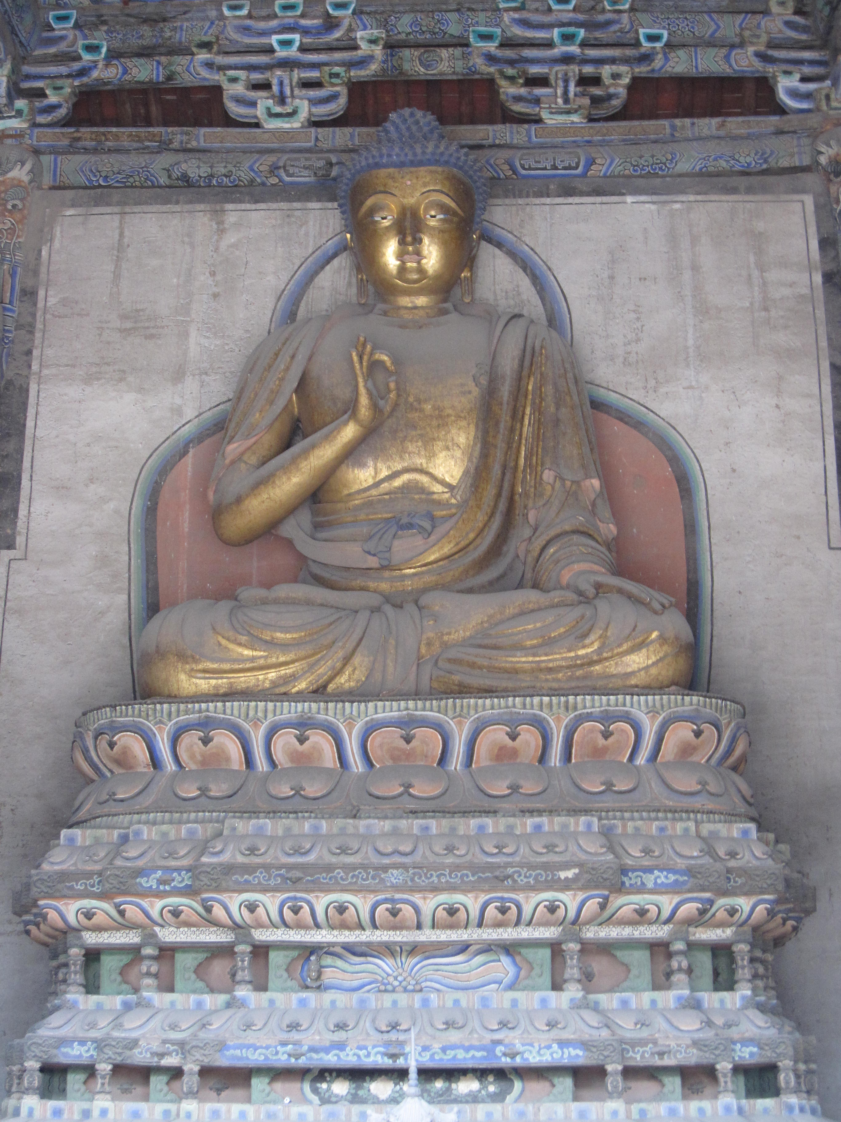 The central statue inside the Daxionbao Hall in Shanhua Temple, Datong, China